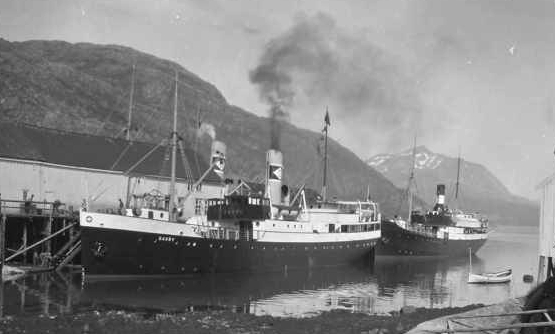 Norwegian steamship SS Barøy, built in 1929. This ship was also employed in the Norwegian coastal express service (Hurtigruten) as a relief ship. SS Dyrø further back.